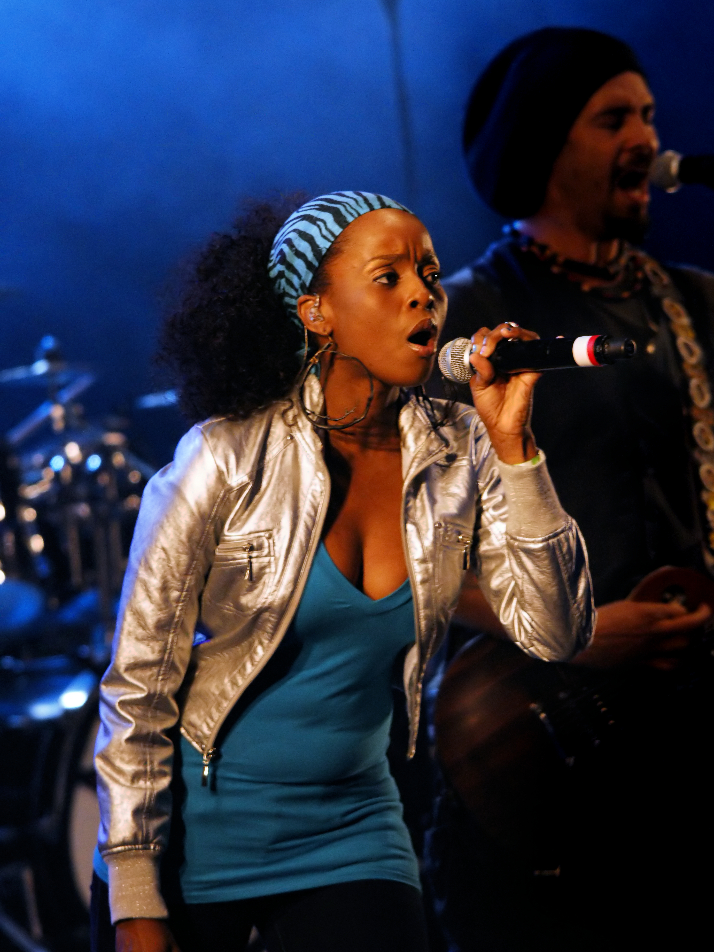 Cherine Anderson at the 2009 Cactus Festival in Bruges, Belgium.